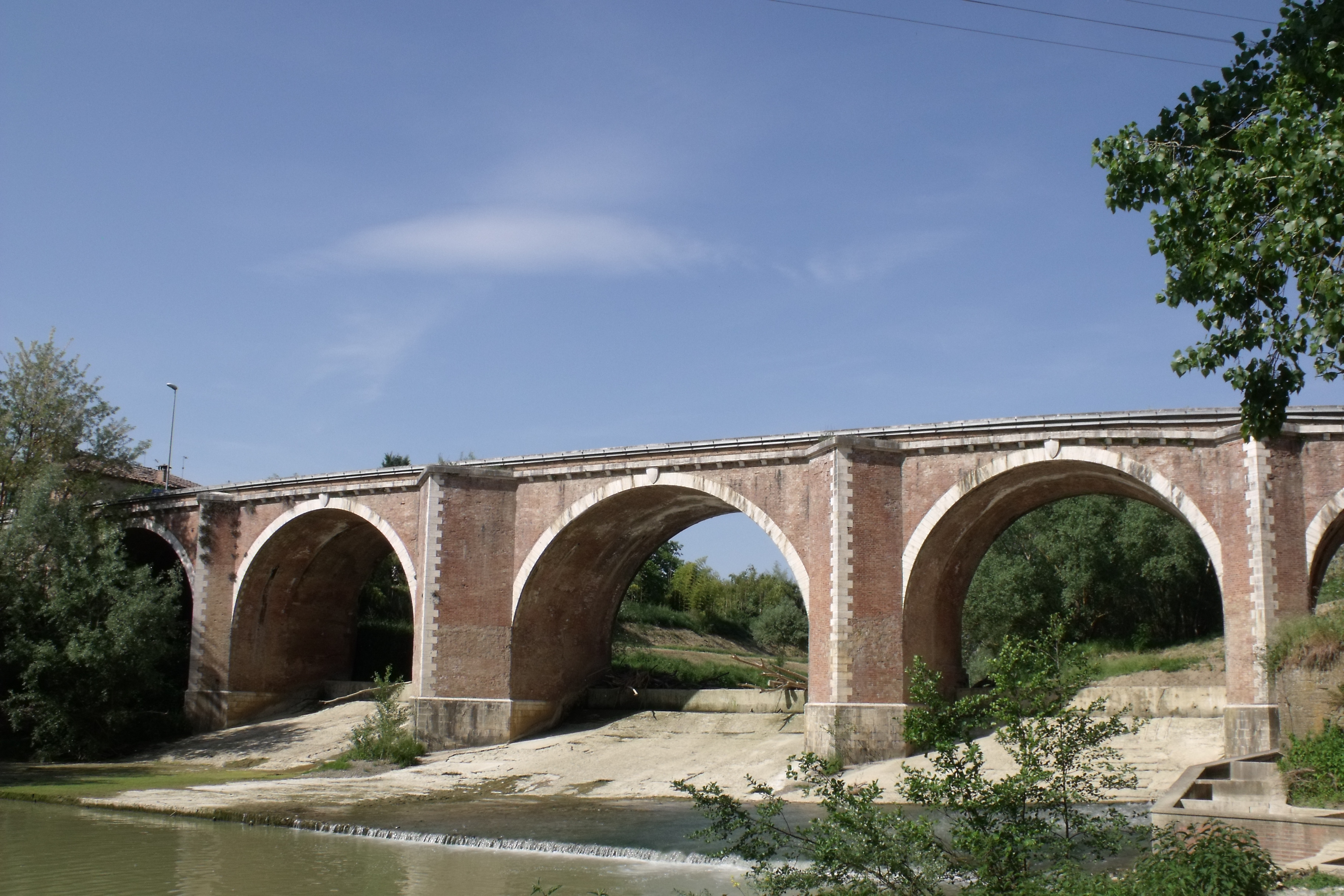 The Arbia River with Bridge Ponte d’Arbia in Ponte d’Arbia (Monteroni d’Arbia), Province of Siena, Tuscany, Italy